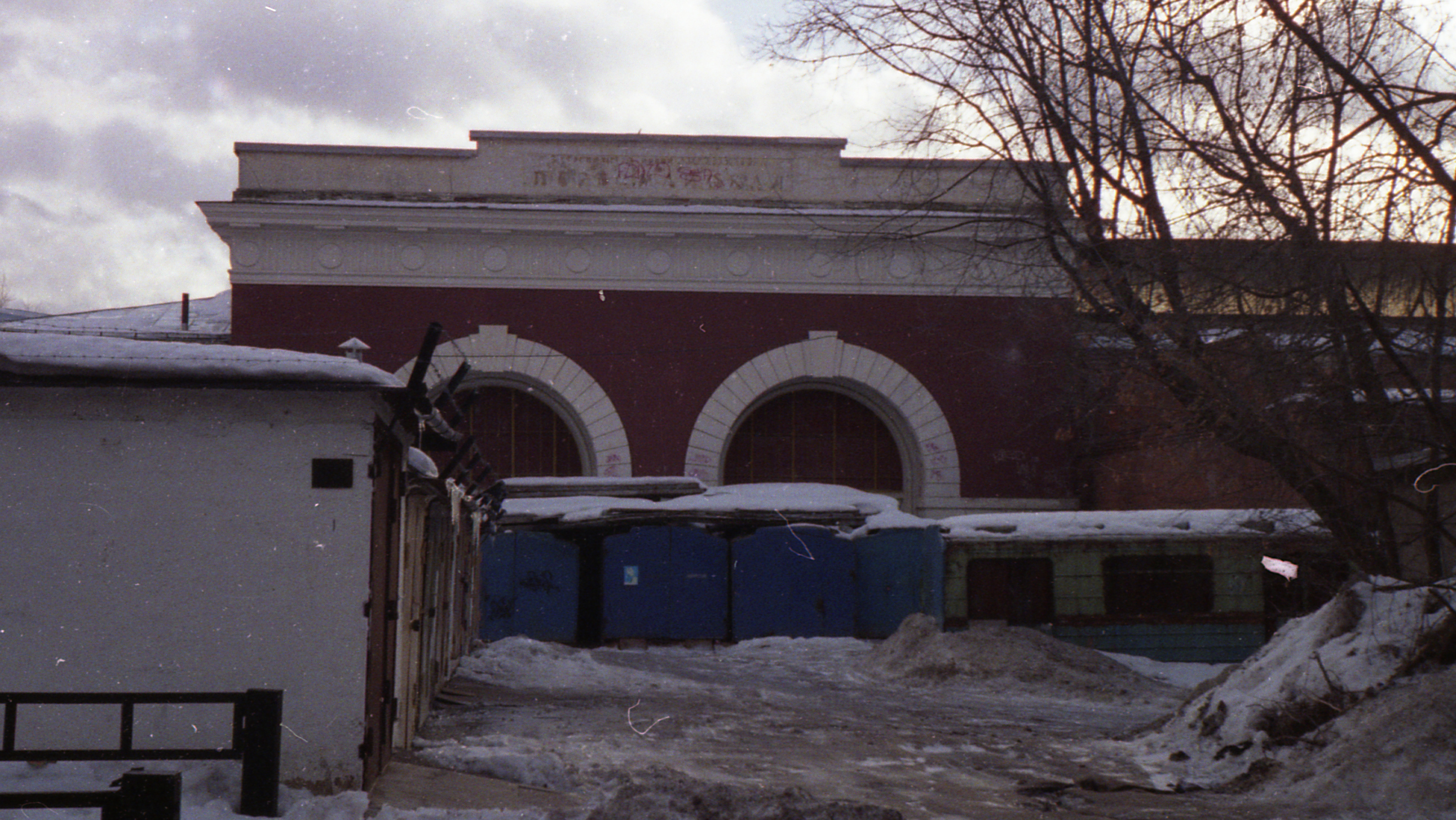 Entrance of temporary Moscow metro station Pervomaiskaya, located in train depot. Olympus mju-II camera, Konica 200